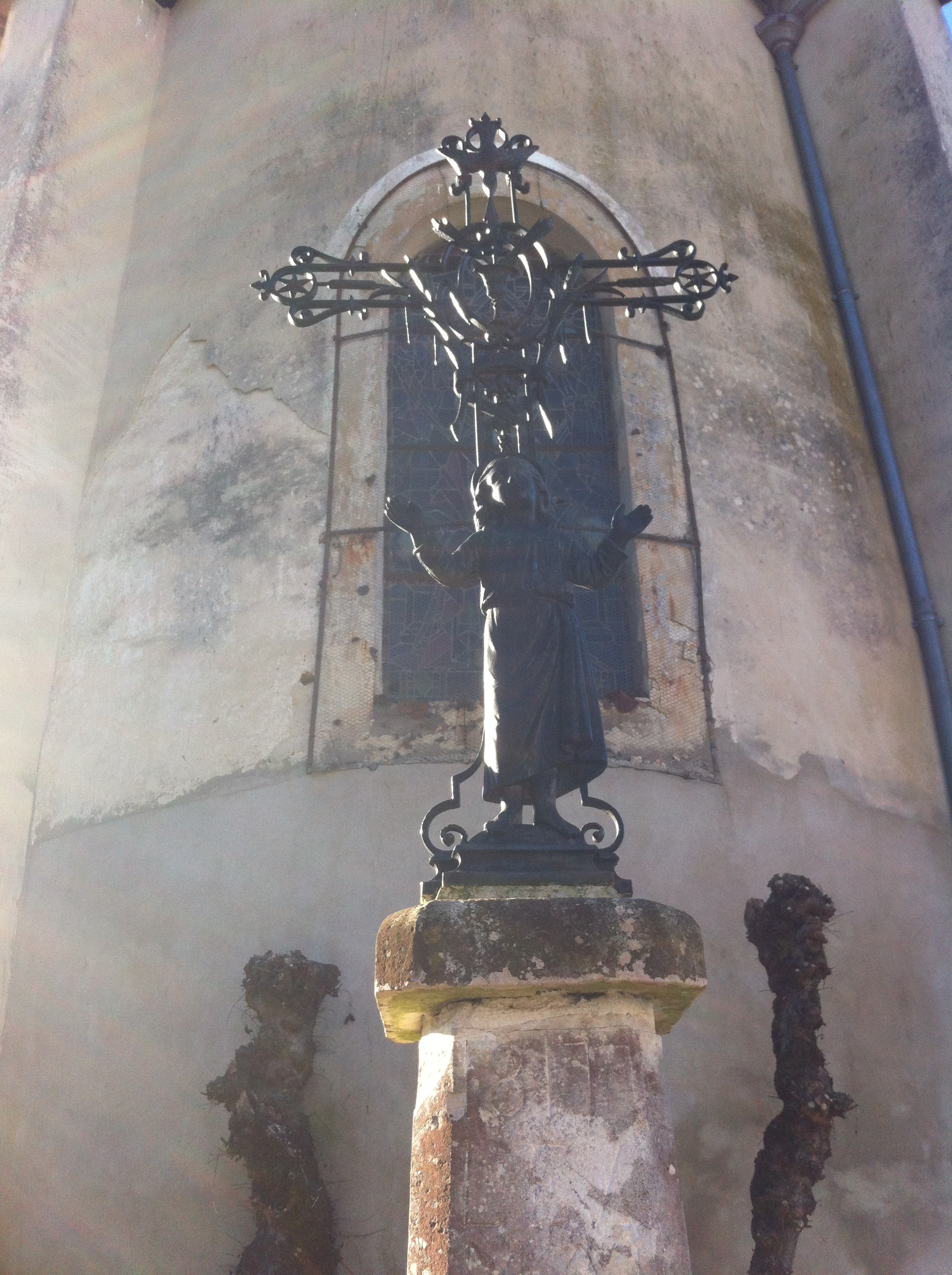 A statue behind the "Saint Barthélemy" church